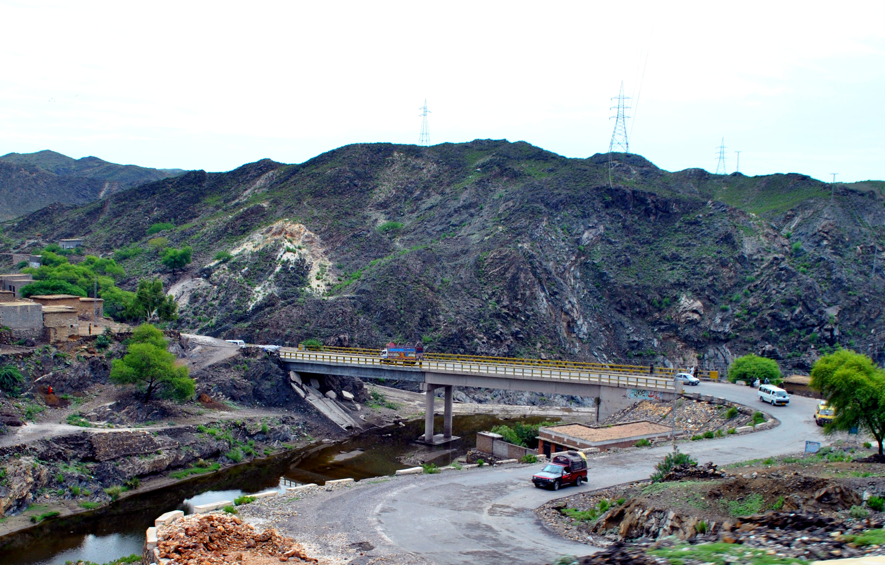 Dand Bridge, Tehsil Pandyale, Mohmand Agency